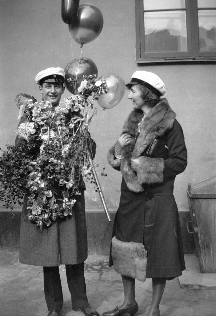 Berit Wallenberg's cousin's son Raoul Wallenberg (1912-1947), at his graduation day at Nya Elementar Senior High School in Stockholm. To the right his mother Maj von Dardel. Berit Wallenbergs kusins son Raoul Wallenberg (1912-1947), vid hans studentexamen på Nya Elementar i Stockholm. Till höger hans mor Maj von Dardel. Parish (socken): Stockholm Province (landskap): Uppland Municipality (kommun): Stockholm County (län): Stockholm Photograph by: Berit Wallenberg Date: 13.05.1930 Format: Film Kulturmiljöbild: 16001000077444 (Persistent URL) Read more about the photo database (in english)